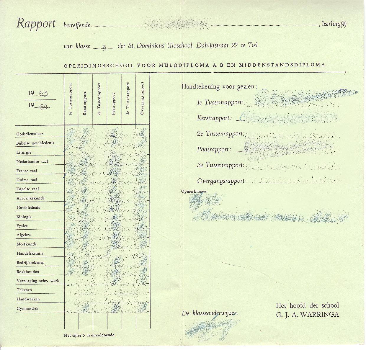 School report of a Dutch school (Mulo) in 1963